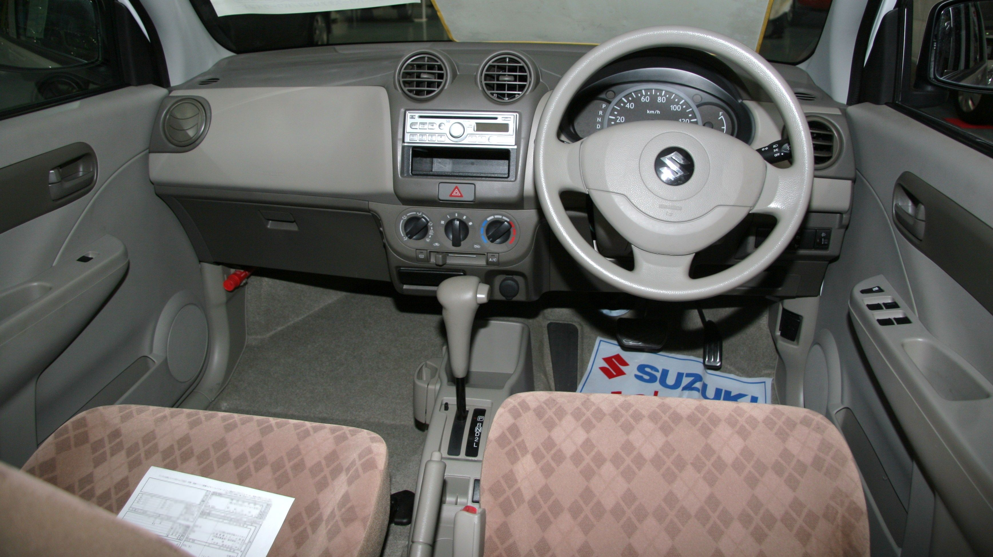 Suzuki Alto